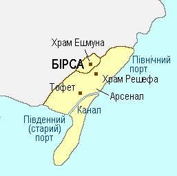 Map of Early Carthage (ukrainian)